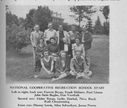 Neva Boyd together with staff summer 1942